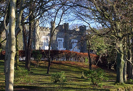 Greeba Castle, Greeba, Isle of Man. Not really a castle, but one of a pair of castellated houses built in 1849 and designed by John Robinson of Douglas. From 1896 to 1931, the residence of famous Manxman Thomas Henry Hall Caine (1853-1931).